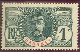 1Fr denominated French Republic key type stamp of Louis Léon César Faidherbe (1818-1889), imprinted in red for Dahomey.